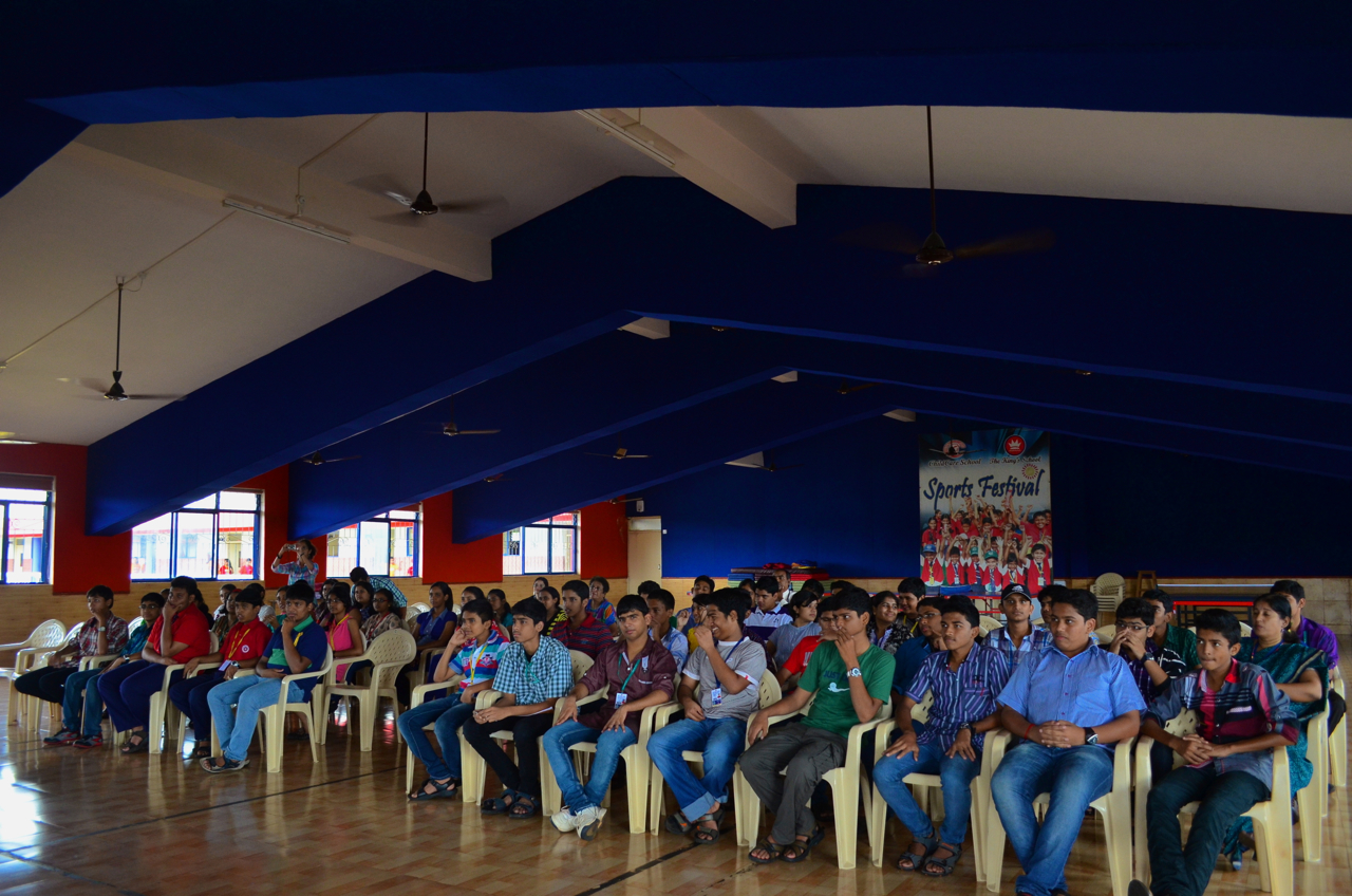 Students attending Wikipedia workshop, The Kings School, Goa